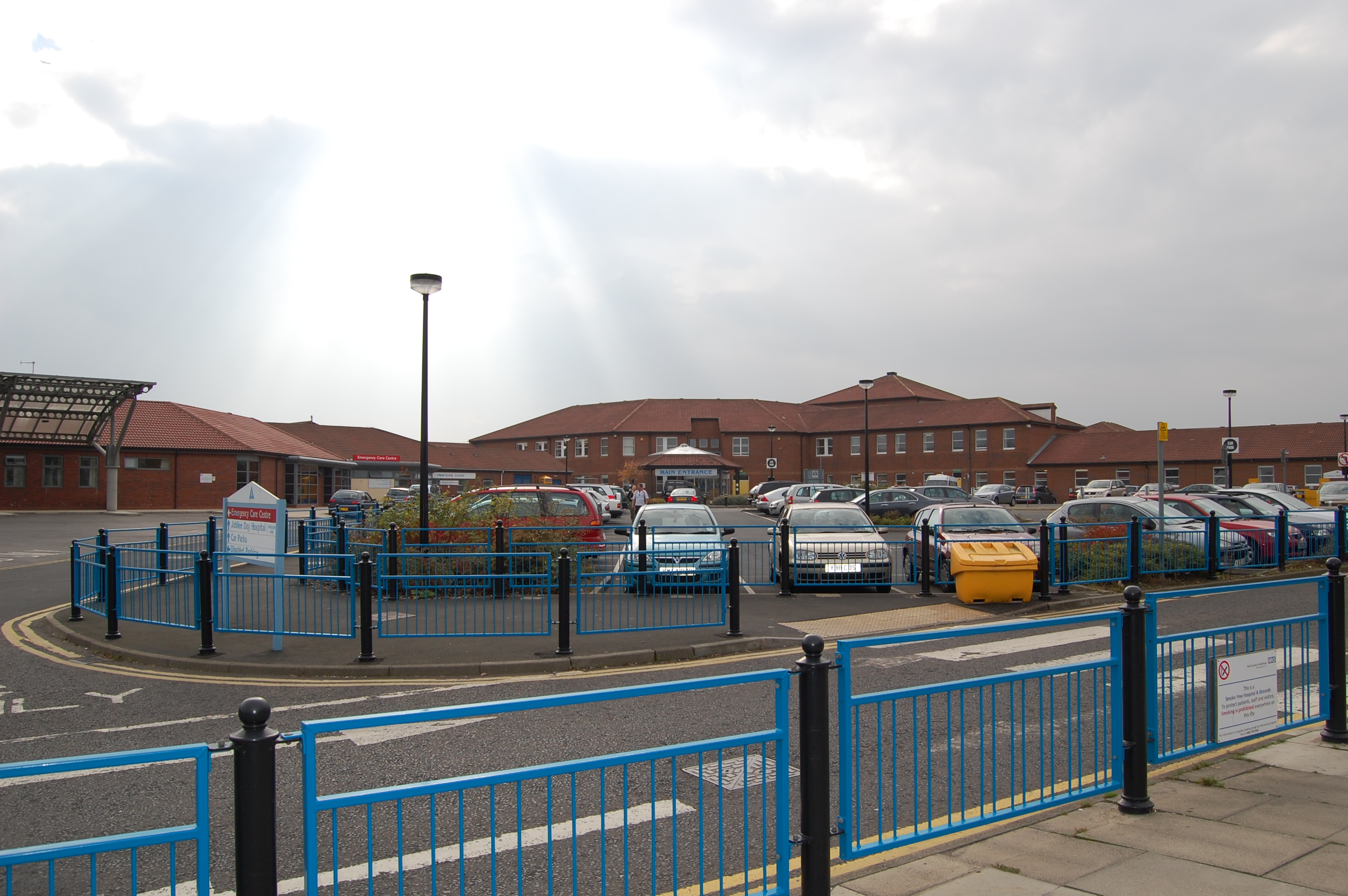 North Tyneside General Hospital, North Shields, North East England, United Kingdom. Front side.